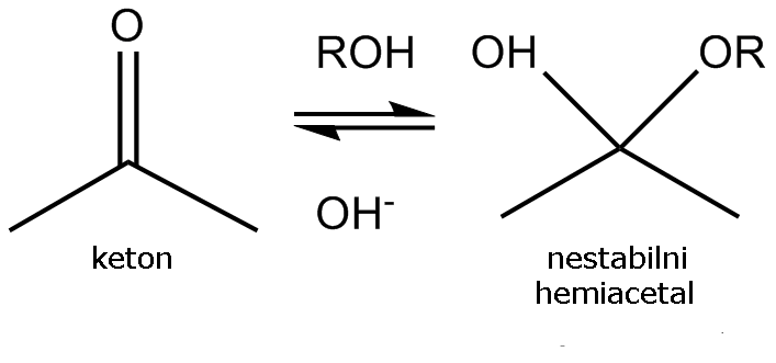 Nucleophilic addition reaction at the carbonyl group of a ketone.